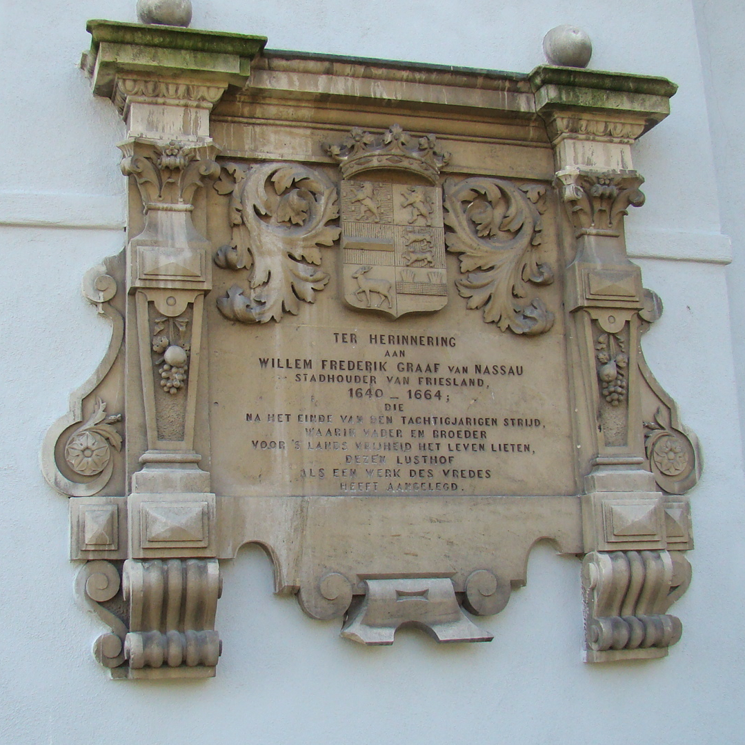 Prince Garden Leeuwarden